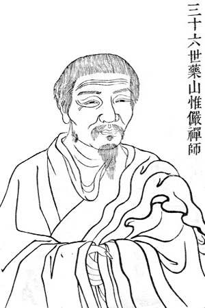 Yaoshan Weiyan (745-827), a Tang Dynasty Buddhist monk. Woodcut, Ching dynasty (1644 - 1912); caption:「三十六世藥山惟儼禪師」